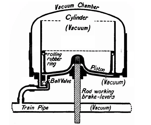 Diagram of railroad vacuum brake cylinder in the running position, from How It Works by Archibald Williams (died 1934). Pub by Thomas Nelson (publisher) in London and New York 1908. Minor adjustments by uploader.